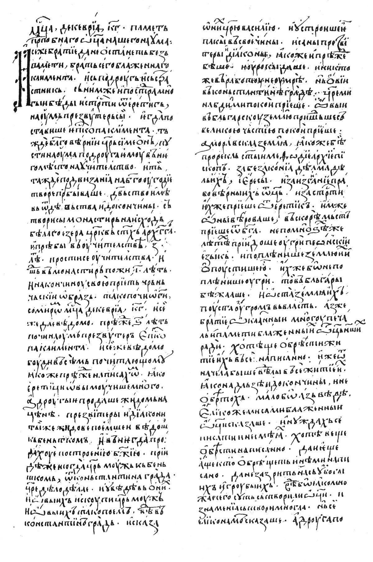 Vita of Naum, p. 1